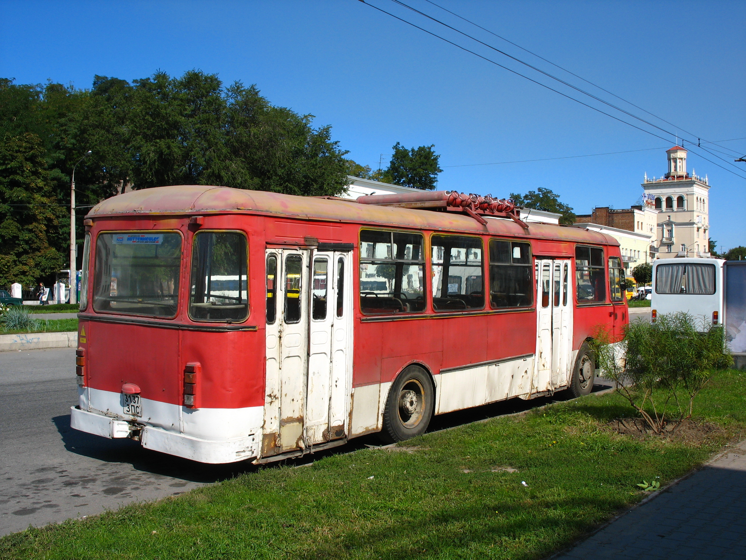 LiAZ-677M is a Soviet classic city bus